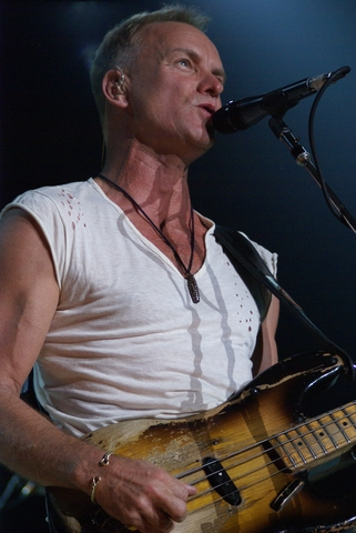 "The Police" concert at Madison Square Garden, New York on 1 August 2007.